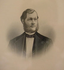 Orlow W. Chapman, Solicitor General of the United States, Educator, Businessman